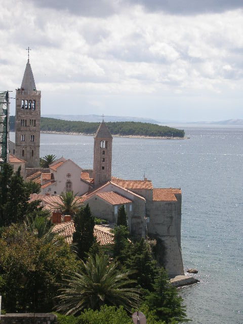 Island of Rab, the cliff at the end of the town of Rab.